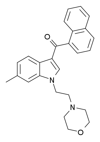 Structure of 6-methyl-JWH-200